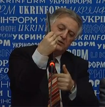 Raul Chilachava, Ukrainian poet, translator and diplomate